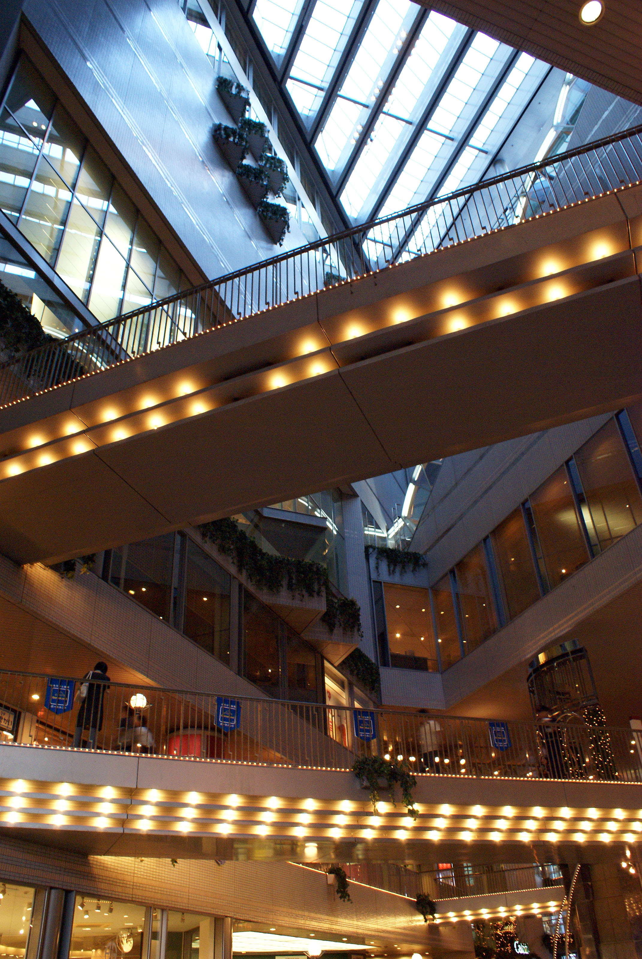 Shin-kobe station in Kobe, Japan